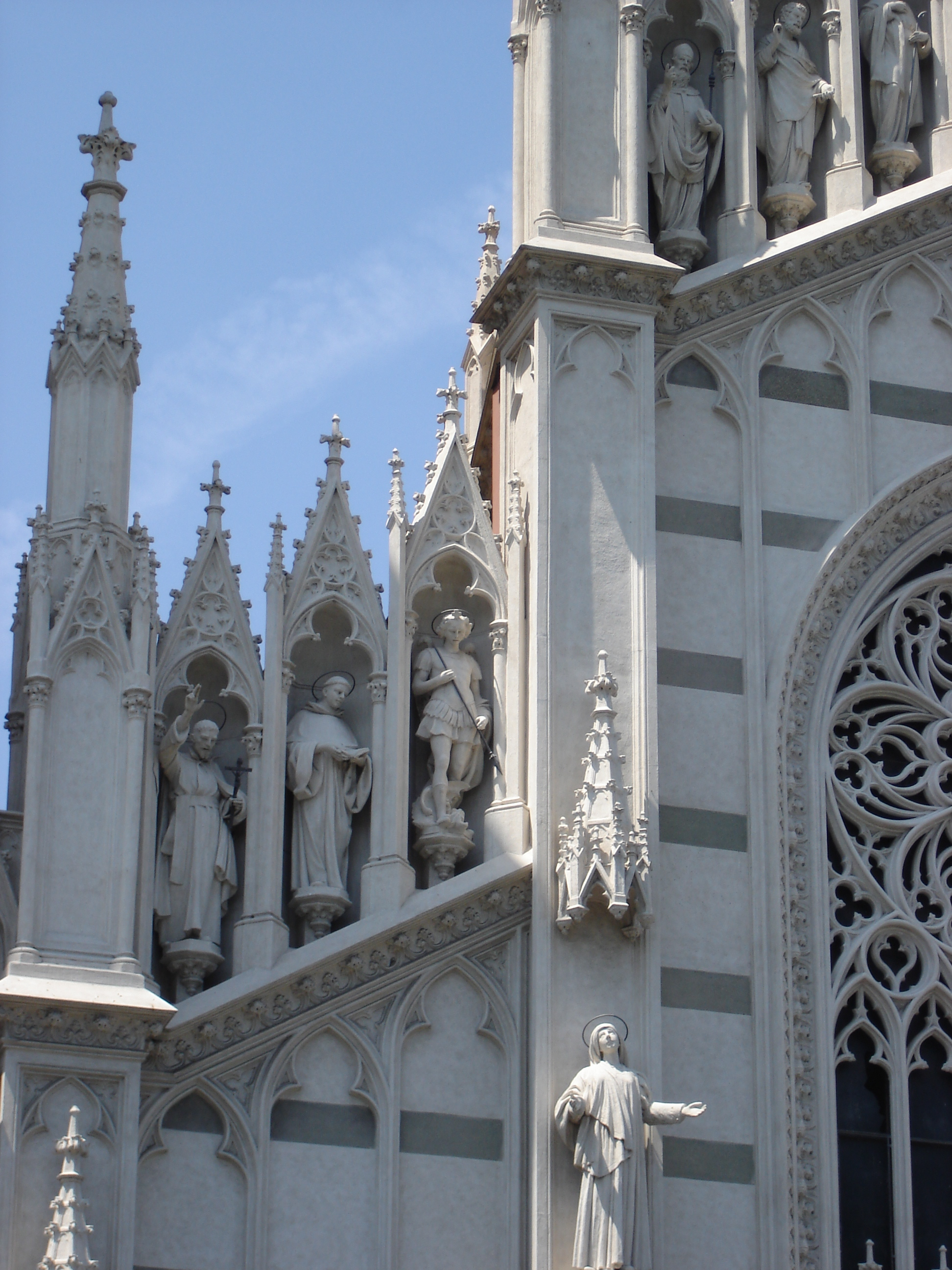 Rome in July